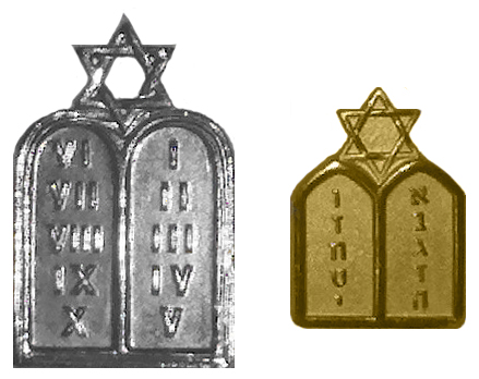 Photo of old and new insignia (collar device) for U.S. Military Jewish Chaplain: on left, pre-1981, with Roman numerals; on right, 1981 and after, with Hebrew letters. Change originally made by US Navy based on recommendation of 1980 "Blue Ribbon Panel" held at Naval Station Norfolk, headed by Jewish Chaplain (Rabbi) Arnold E. Resnicoff. After Navy approved change in 1981, Army and Air Force soon followed. Jewish Chaplains were given until January 1, 1983, to make the switch to the new insignia.